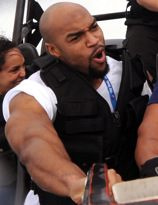 Tennessee Titans player Chris Hope shouts with excitement while making a sharp turn during a rigid hull inflatable boat tour with Sailors assigned to Afloat Training Group Middle Pacific (ATG MIDPAC) as part of a tour of ATG MIDPAC headquarters at historic Ford Island. Eight NFL players received tours of Pearl Harbor, including tours of the Pearl Harbor-based guided-missile destroyer USS Chafee (DDG 90) and the Sea-Based X-band Radar.